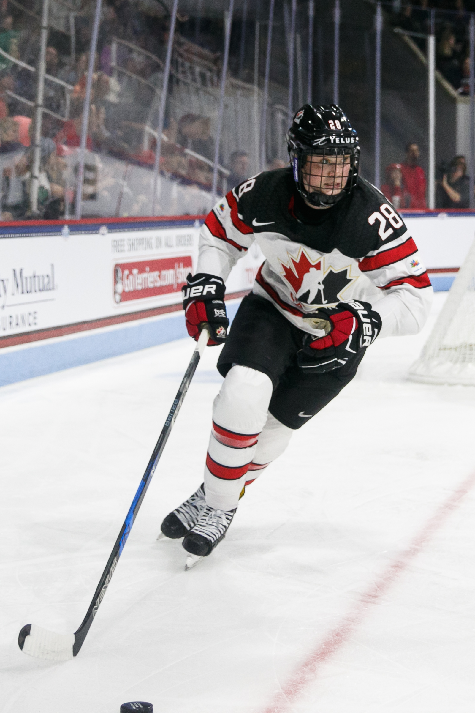 Micah Zandee-Hart playing for Team Canada in 2017